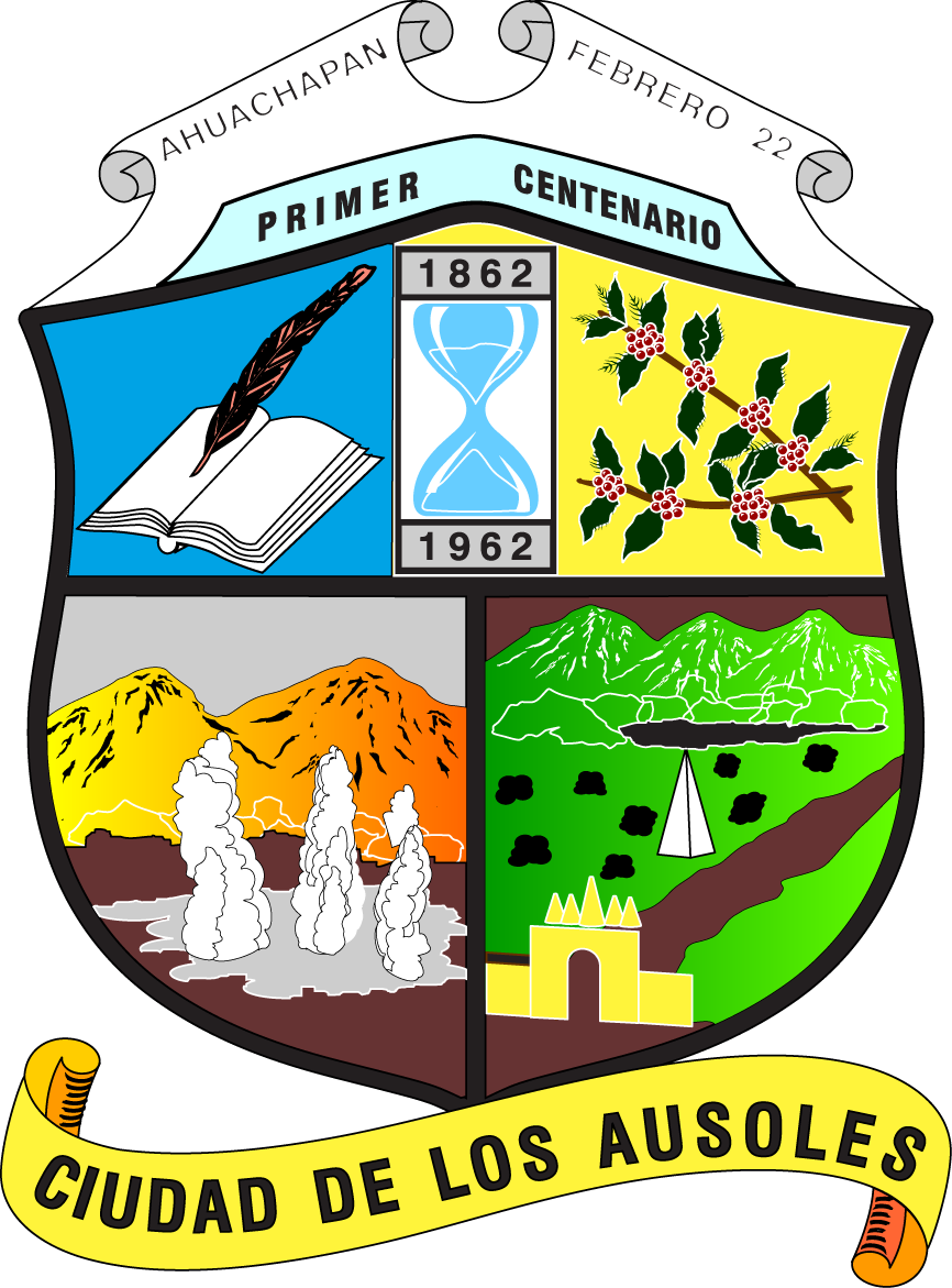 Coat Ahuachapan department.